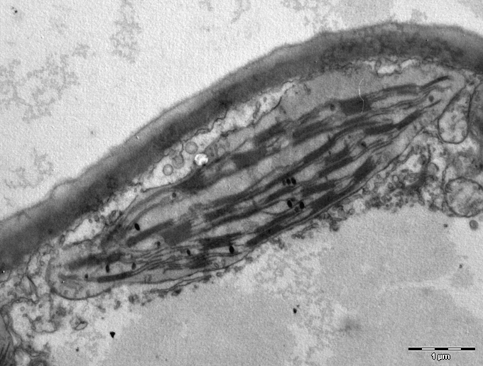 Transmission electron microscope image, showing a chloroplast (Anemone sp., leaf cell).